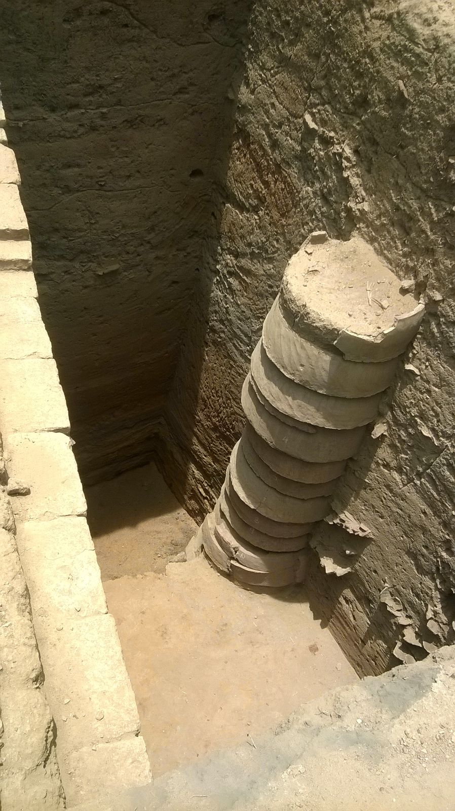 At the newly discovered archaeological site at Keezhadi near Madurai.